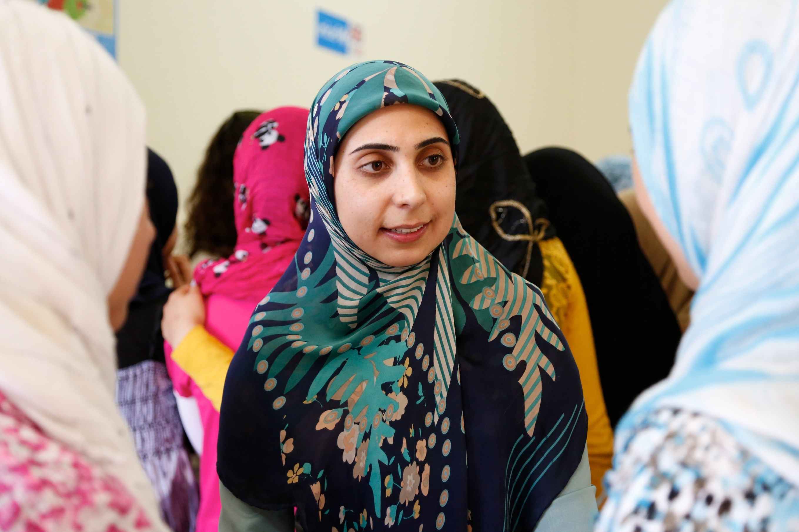 A Lebanese woman talks to two Syrian refugee girls about gender-based violence and early marriage, at a UNICEF project supported by UK aid in southern Lebanon. Khadija is a Lebanese educator working with the Italian NGO Intersos. Intersos is being supported by UK aid and UNICEF to provide help to girls who are refugees from Syira and Lebanese girls as well. Girls and young women from both communities are at increased risk of sexual violence and early marriage due in part to pressures created by the conflict in Syria. "Most of the girls I meet are worried about their futures", says Khadija. "One of their main concerns is being married too early. They worry about how they will cope this this, and would just rather be in school to finish their education". There are lots of cultural and financial pressures on both Syrian and Lebanese families, and the early marrying of daughters is often seen as a means of providing security to the girls and the families. Picture: Russell Watkins/Department for International Development. Available free for editorial use under Crown Copyright/Open Government License/Creative Commons - Attribution